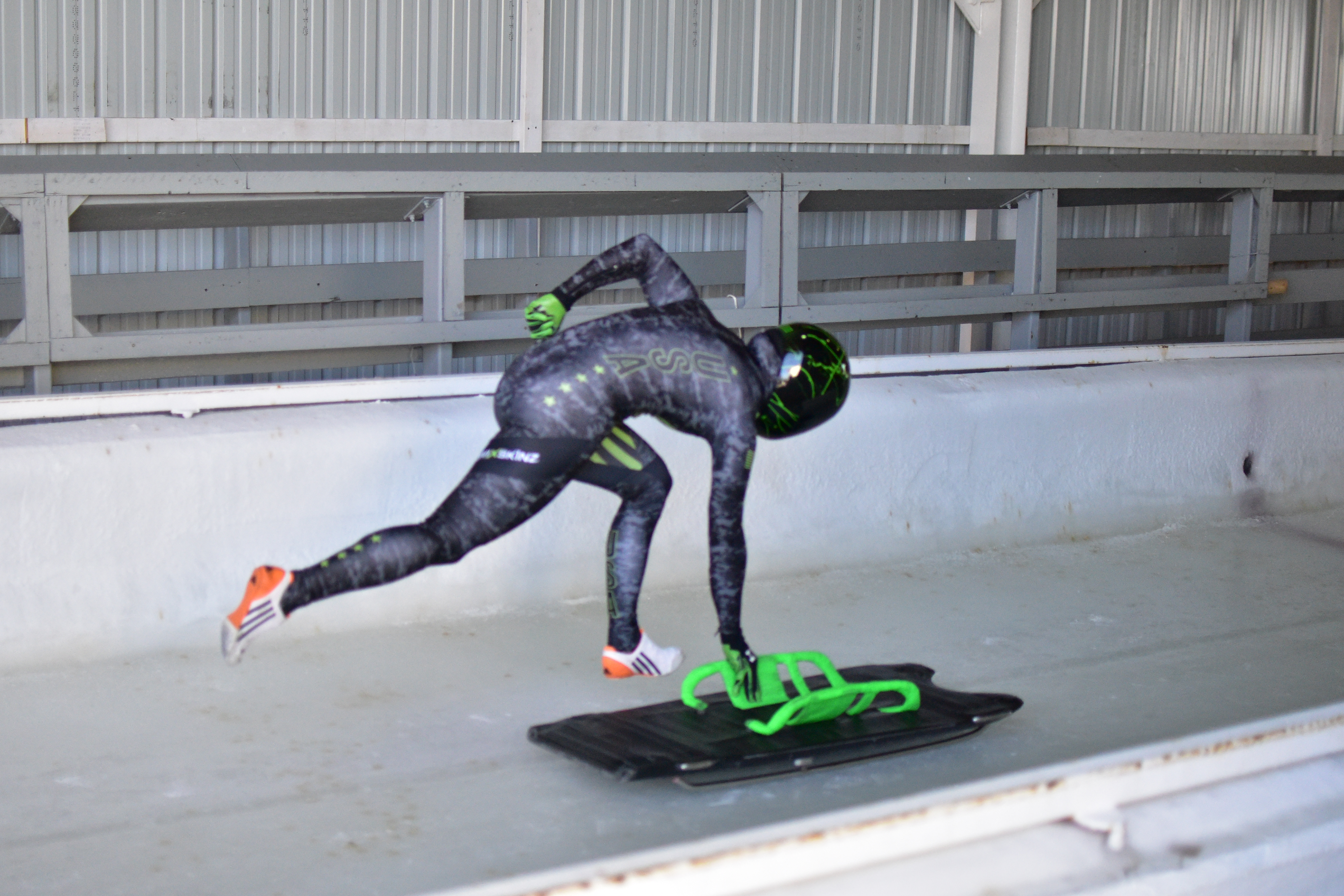 photos by CPT Nathaniel Garcia